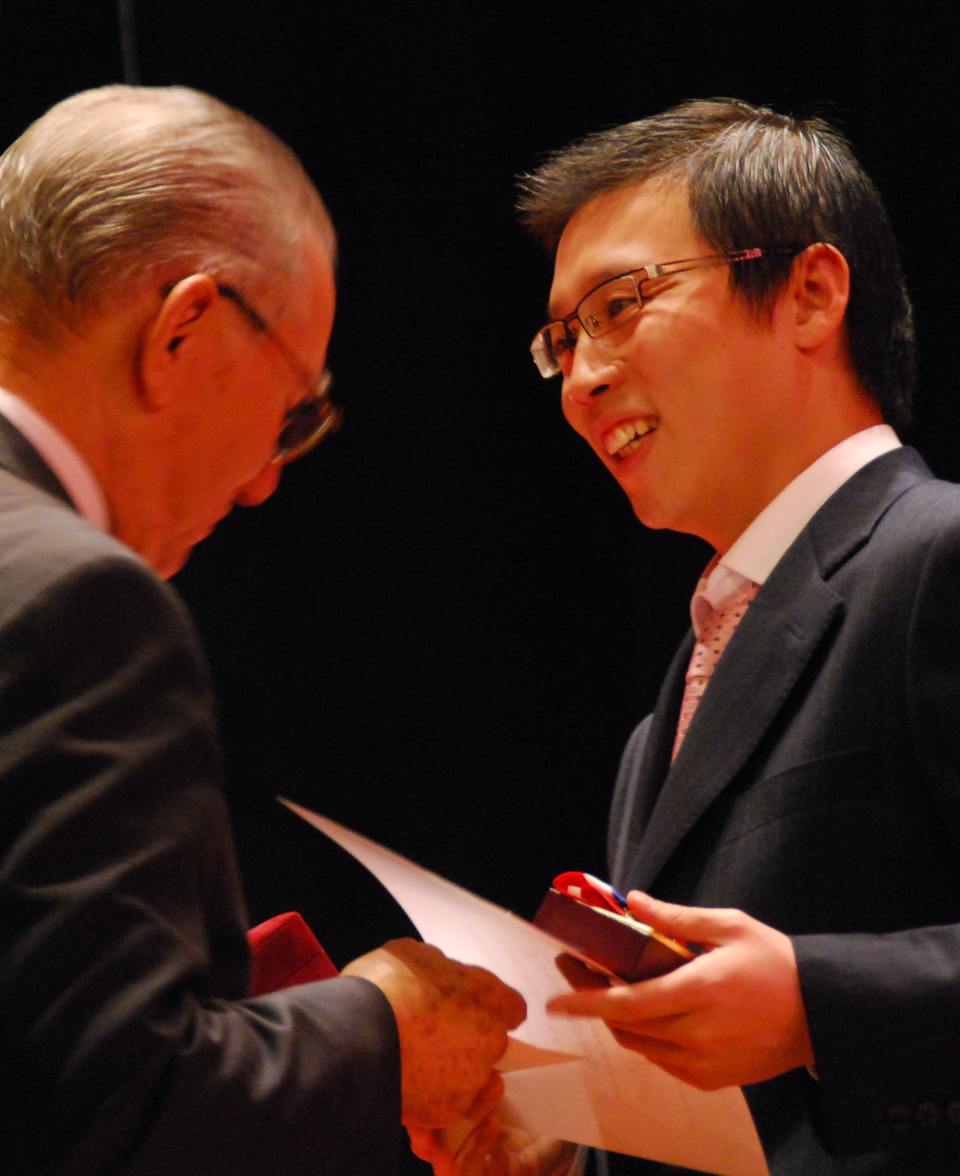 Pianist Jingjing Wang receiving first prize at the Panama International Piano Competition, 2008.